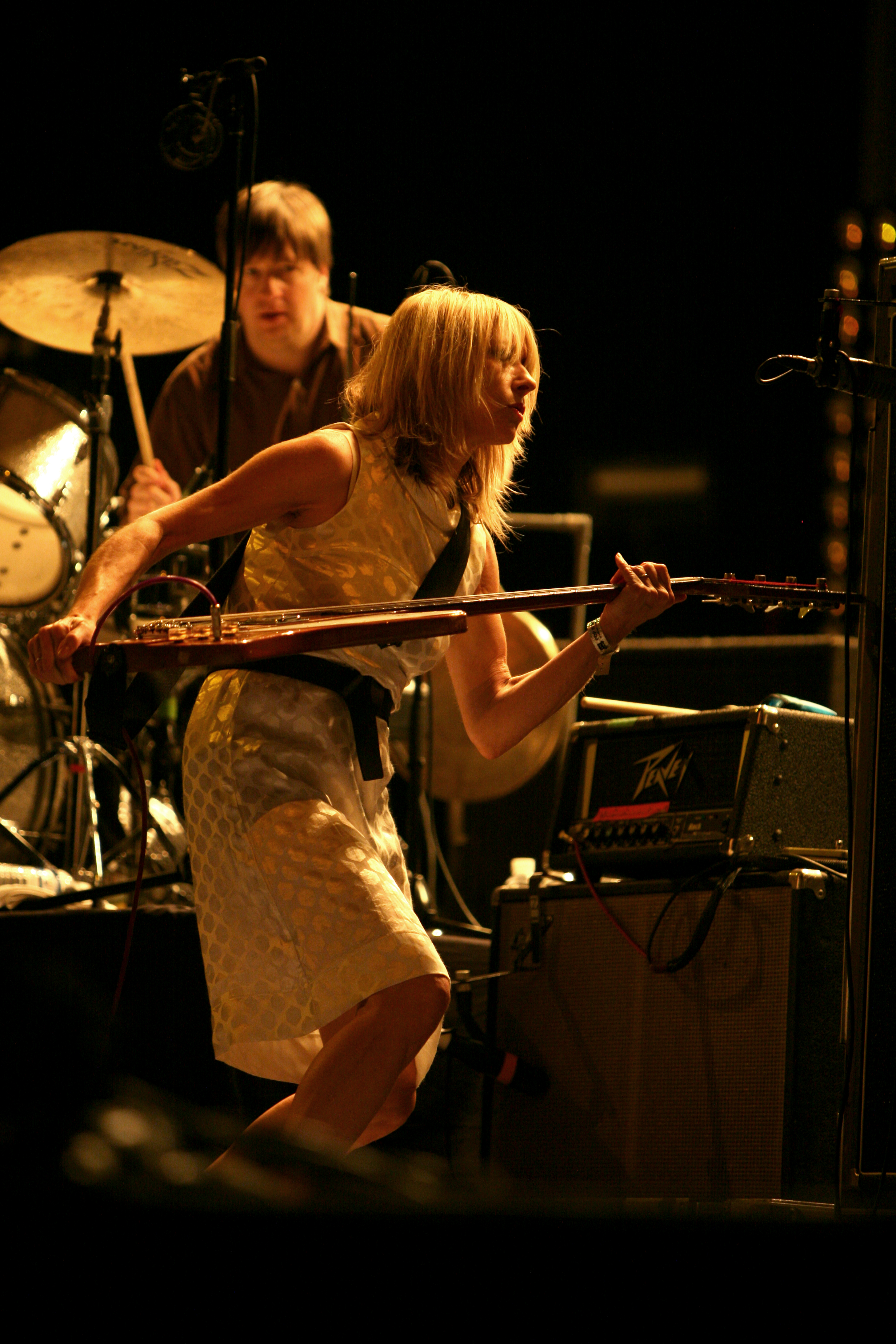 Kim Gordon (Sonic Youth) at Rock en Seine Route du Rock, August 2007